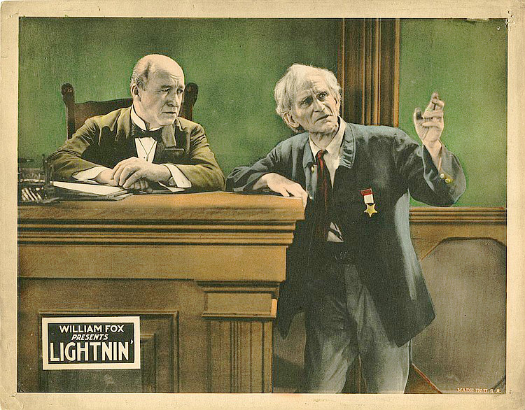 Lobby card for the American comedy film Lightnin (1925).